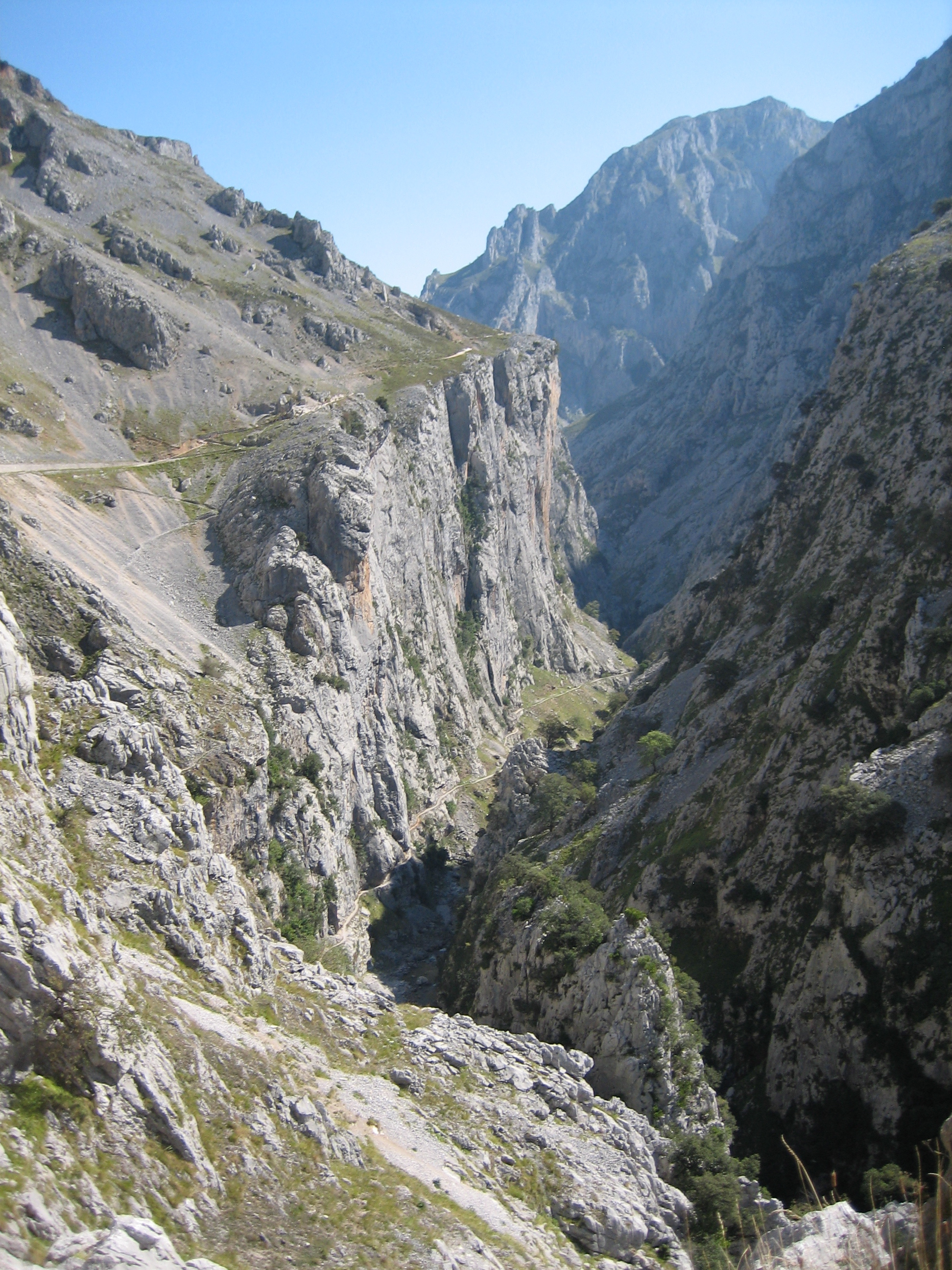 Picture of the Ruta del Cares